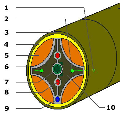 Cross-section through annelid. Refs: Ruppert, E.E., Fox, R.S., and Barnes, R.D. (2004) "Annelida" in Invertebrate Zoology (7th ed.), Brooks / Cole, pp. 415 ISBN: 0030259827. (fig 13-2) Rouse, G. (1998) "The Annelida and their close relatives" in Anderson, D.T. , ed. Invertebrate Zoology, Oxford University Press, pp. 178 ISBN: 0195513681. (fig 8.2 d). Key: 1 Nephridiopore 2 Nephridium 3 Skin 4 Circular muscle 5 Longitudinal muscle 6 Peritoneum 7 Gut 8 Blood vessel 9 Nerve cord 10 Coelom